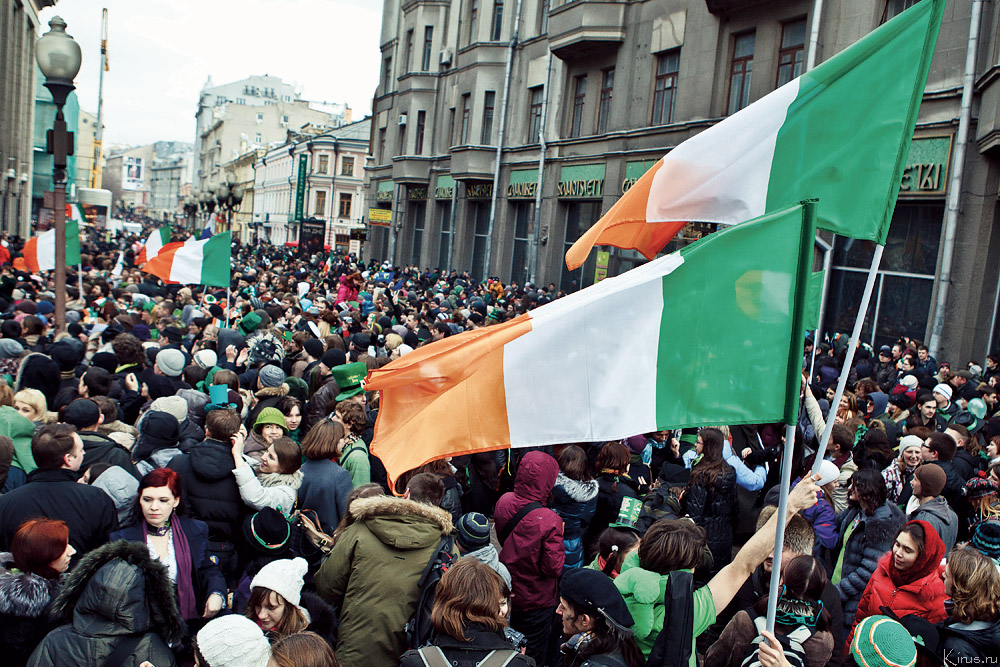 Parade during Saint Patrick's Day in Moscow, at Old Arbat.